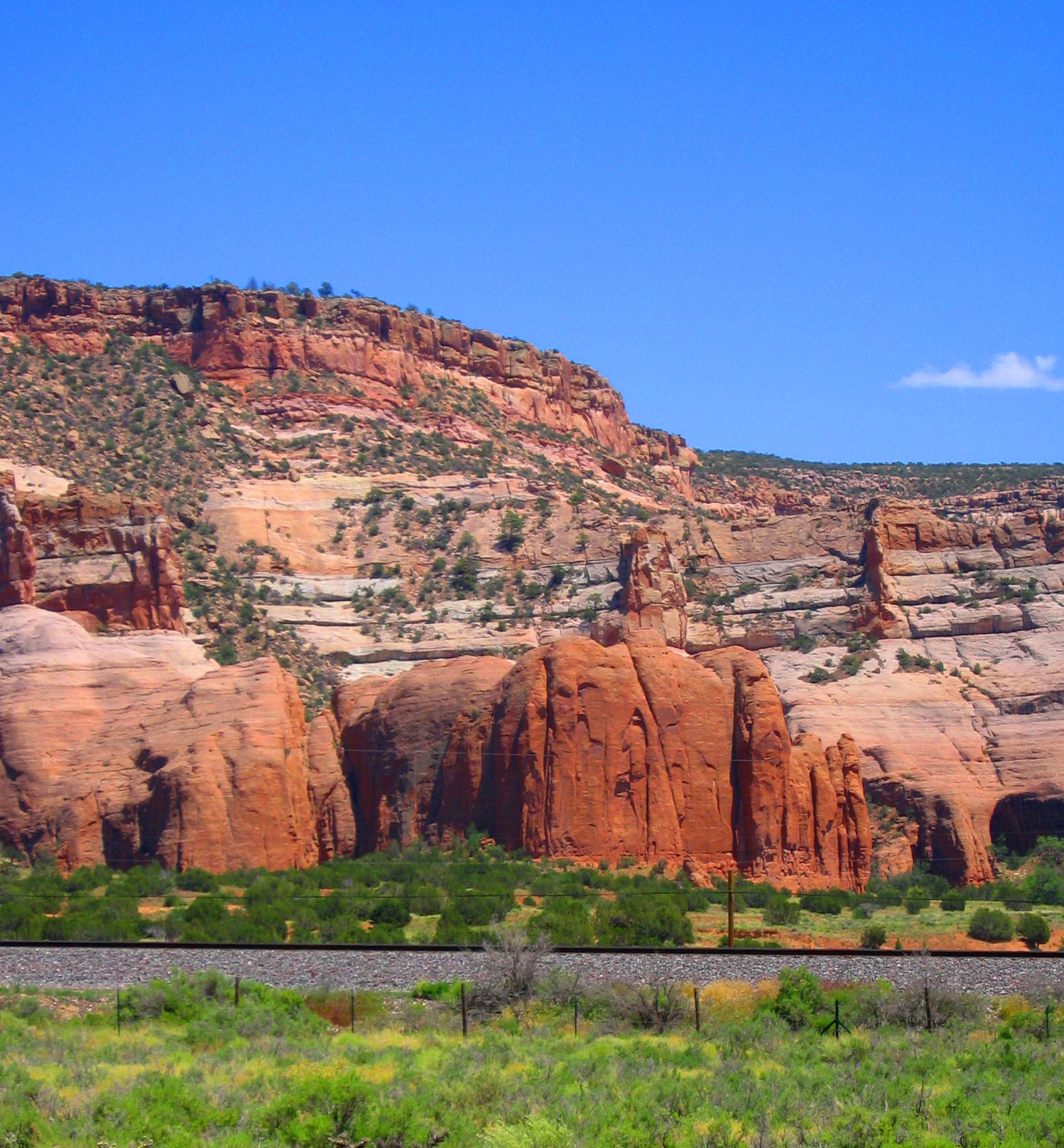 New Mexico scenery